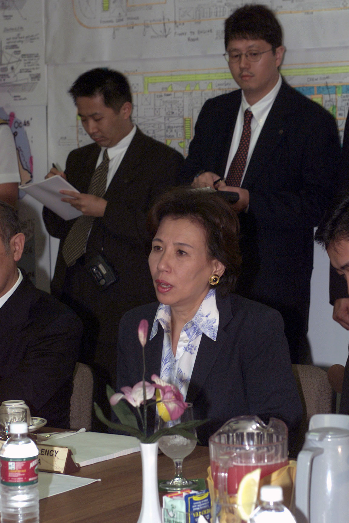 Her Excellency Makiko Tanaka, Minister of Foreign Affairs, Japan attends a briefing on recovery operation at Pearl Harbor, Hawaii (HI). Mrs. Tanaka came to lend her support and received an update on the US Navy (USN) led effort during recovery operations for the Japanese fishing vessel Ehime Maru. Location: PEARL HARBOR, HAWAII (HI) UNITED STATES OF AMERICA (USA) Camera Operator: PH3 LOLITA D. SWAIN, USN